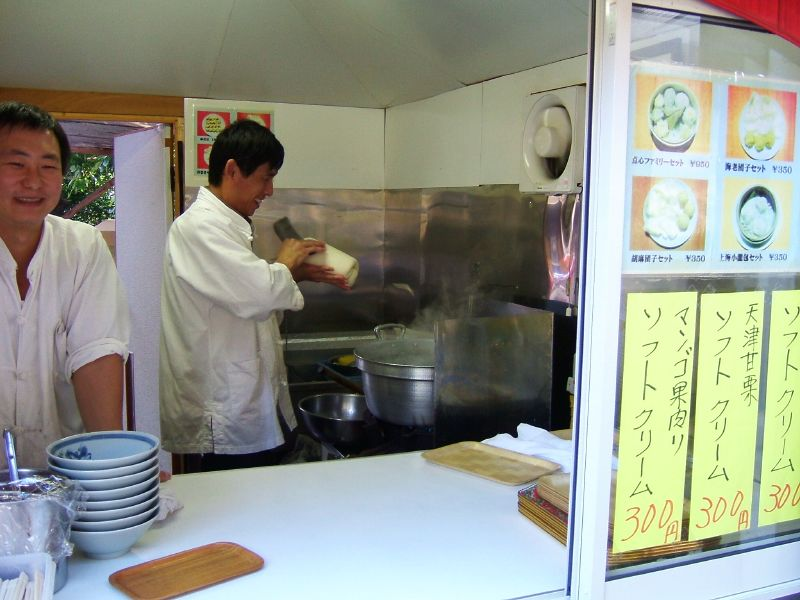 The guy is cutting the noodle dough and the peice he cuts flys into the boiling water. This is not a common sight. The staff were both Chinese.